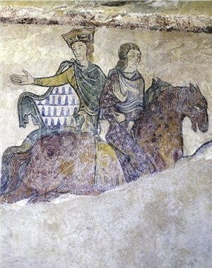 A mural which most likely depicts Eleanor of Aquitaine in a royal procession, with a figure variously identified as her son, John I of the England, her daughter, Joan, or her daughter in law, Berengaria of Navarre.